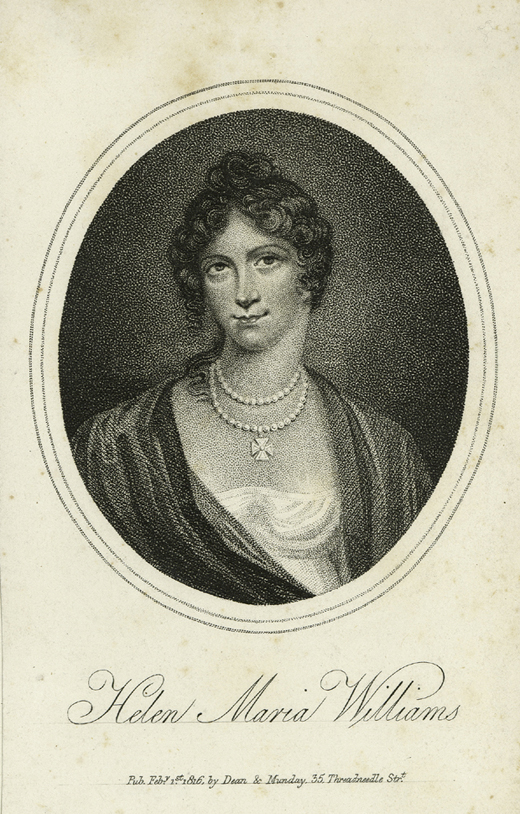 London: Dean and Munday, 1816, NYPL, The Carl H. Pforzheimer Collection of Shelley and His Circle